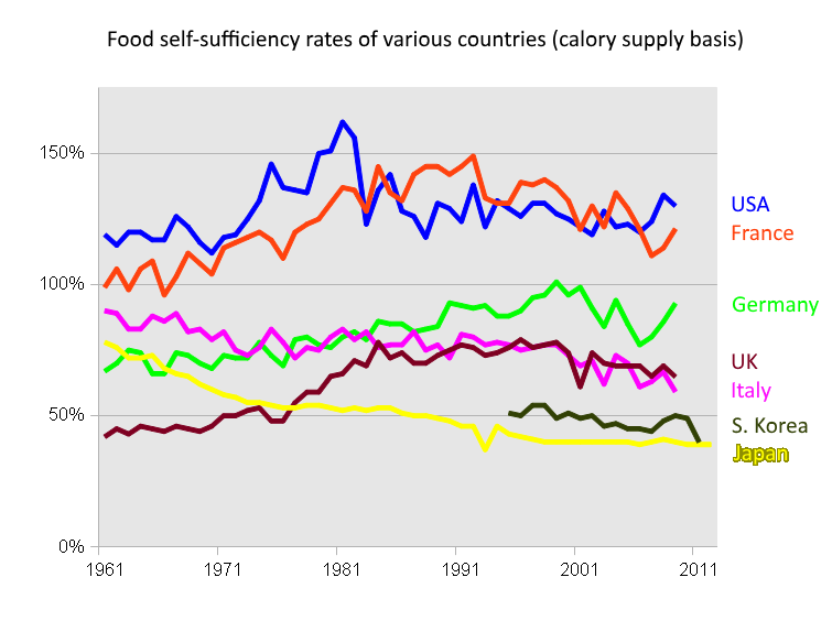 Changes in food self-sufficiency rates of various countries. Compiled from estimate data produced by the Ministry of Agriculture, Forestry and Fisheries in Japan. Overseas data is calculated by the Ministry of Agriculture, Forestry and Fisheries using aggregate values of the FAO. Data: Ministry of Agriculture, Forestry and Fisheries "Food Self-sufficiency Rates around the World." 「世界の食料自給率」